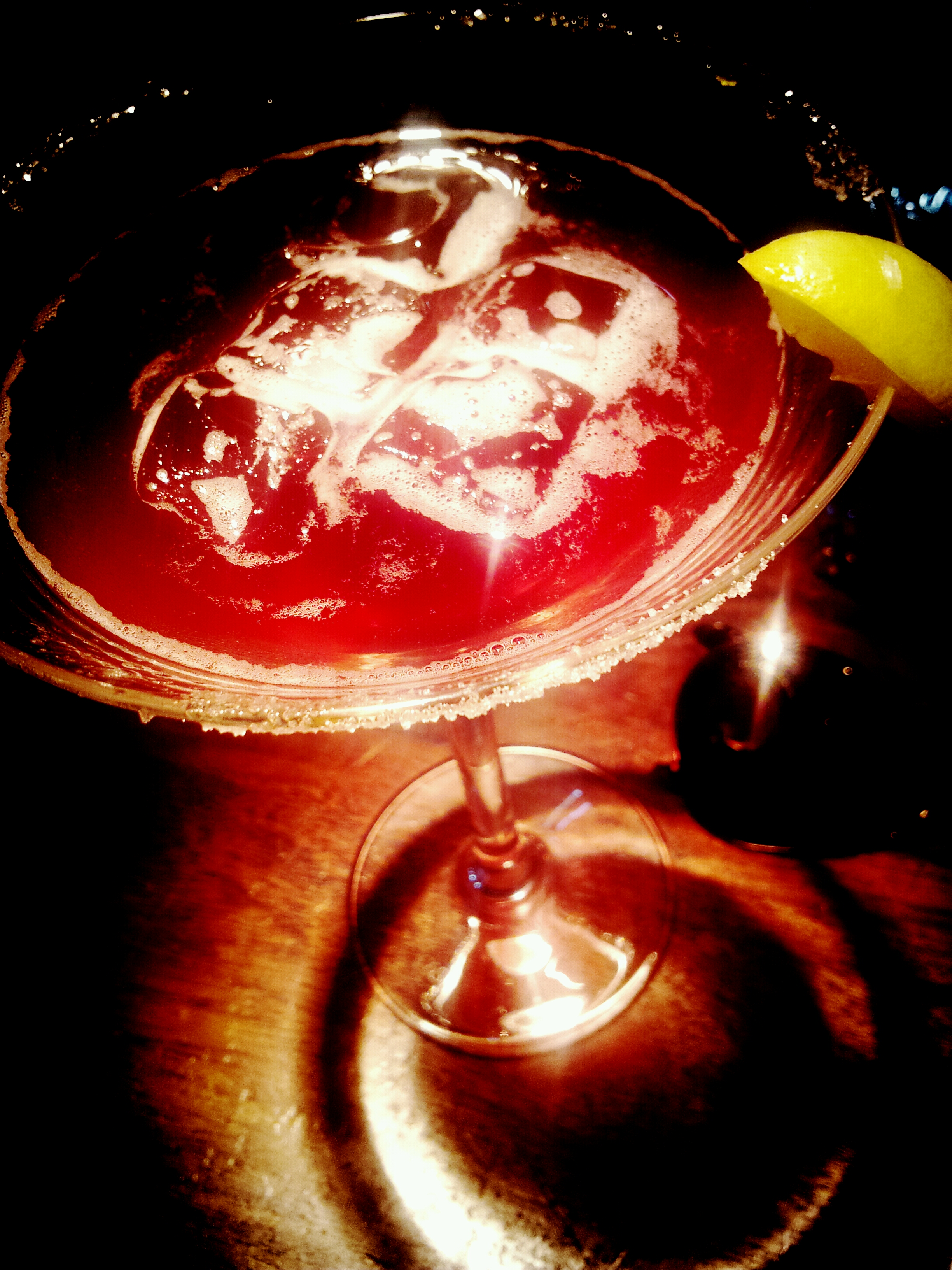 A random click at hard rock café